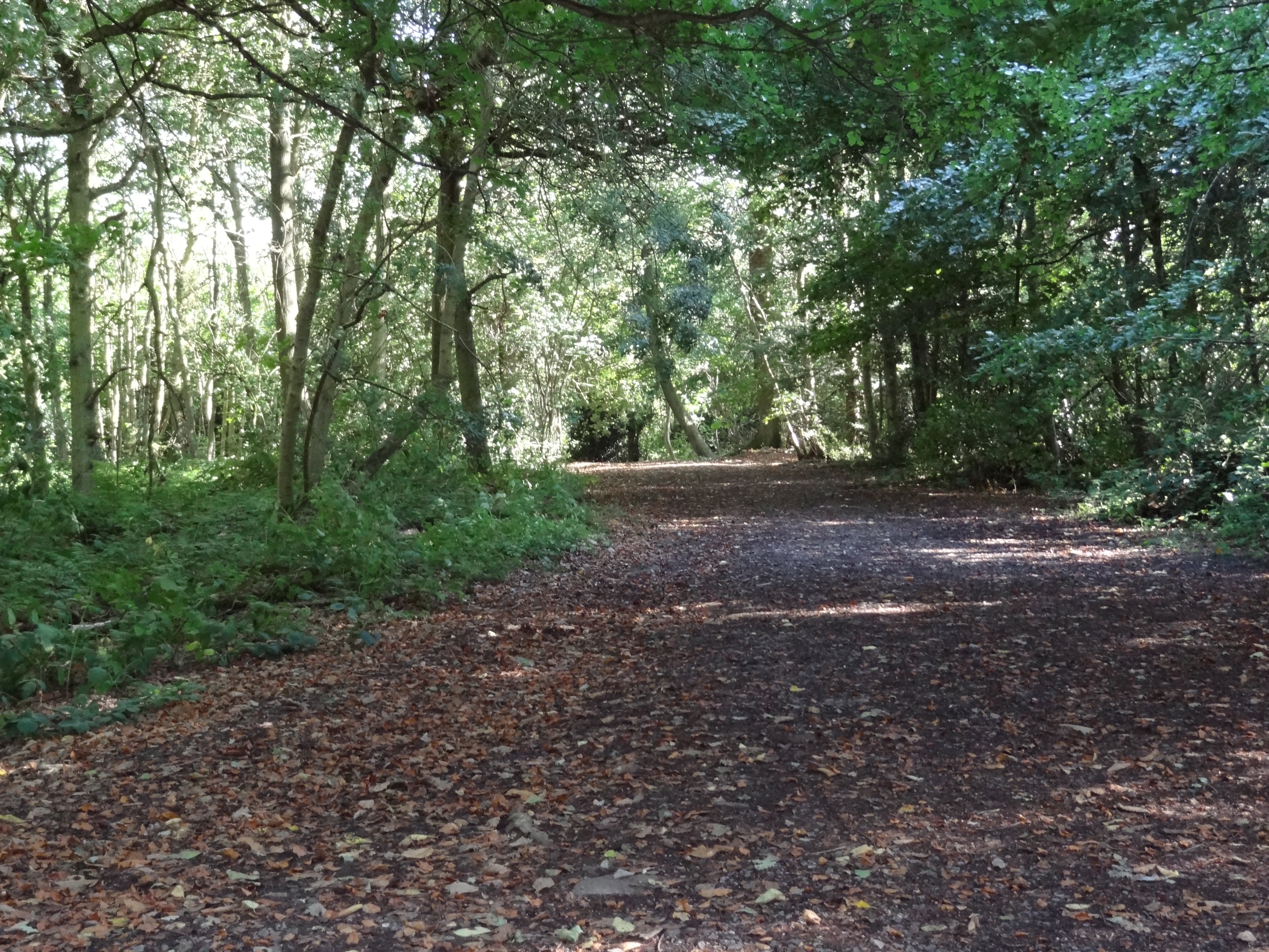 Cuckoo Wood in High Elms Country Park